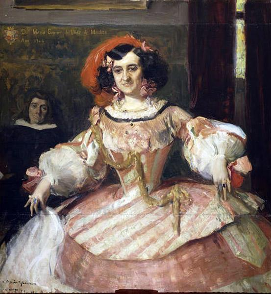 The Actress, María Guerrero as `La Dama Boba'